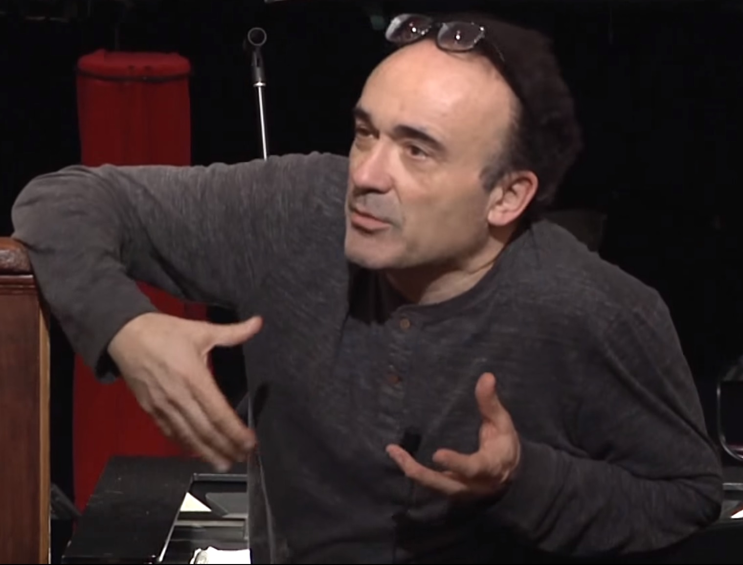 French conductor Frédéric Chaslin discusses Bizet's Carmen at the Teatro Comunale di Bologna.